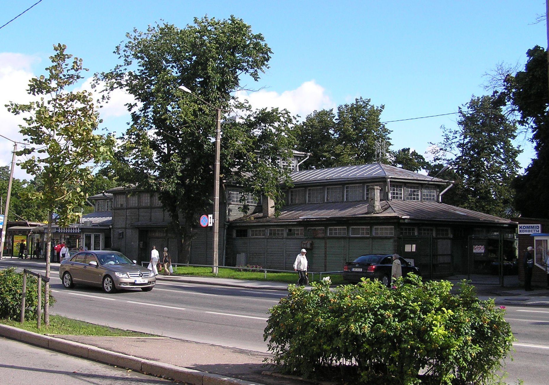 Nõmme market